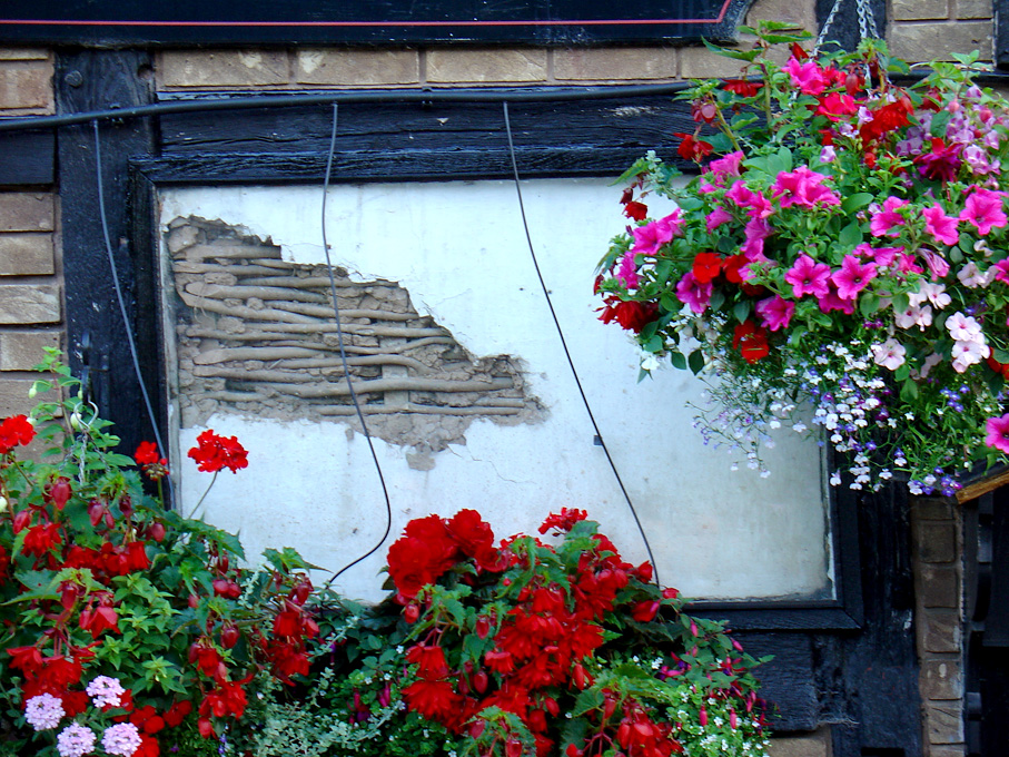 Original wattle and daub panel forming part of The Mug House, Claines.